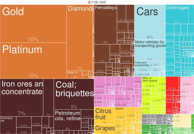 2014 South Africa Products Export Treemap